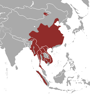 Hog Badger (Arctonyx collaris) range